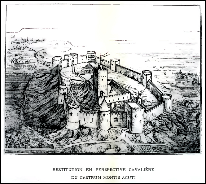 restitution of Montaigu castle burgundy